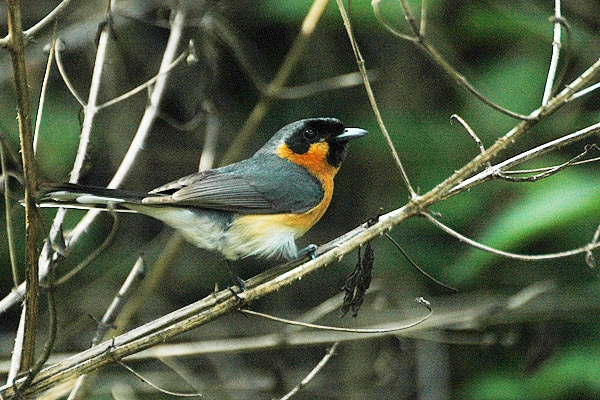 Spectacled Monarch (Monarcha trivirgatus), Lacey's Creek, SE Queensland, Australia